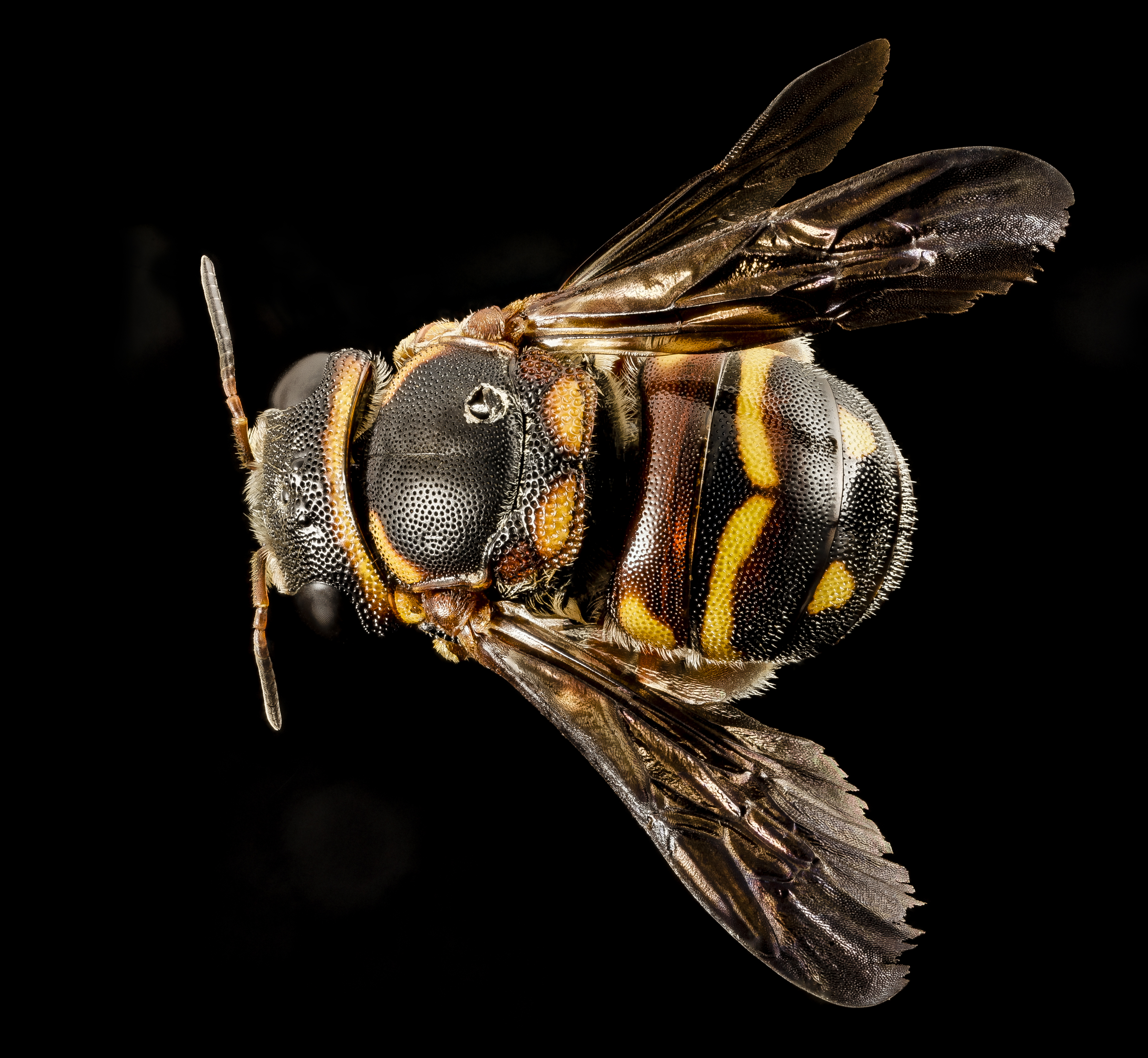 A lovely little southern pea loving bee. Its so nice to know that these little flying jewels are out there and not everything is a honey bee. Collected by Sabrie Breland in the southern pinelands of Georgia and photographed by Sara Guerrieri. 17:55, 3 March 2015 (UTC)17:55, 3 March 2015 (UTC) 0 17:55, 3 March 2015 (UTC)17:55, 3 March 2015 (UTC) All photographs are public domain, feel free to download and use as you wish. Photography Information: Canon Mark II 5D, Zerene Stacker, Stackshot Sled, 65mm Canon MP-E 1-5X macro lens, Twin Macro Flash in Styrofoam Cooler, F5.0, ISO 100, Shutter Speed 200 The grass so little has to do, A sphere of simple green, With only butterflies to brood, And bees to entertain, - Emily Dickinson Want some Useful Links to the Techniques We Use? Well now here you go Citizen: Basic USGSBIML set up: USGSBIML Photoshopping Technique: Note that we now have added using the burn tool at 50% opacity set to shadows to clean up the halos that bleed into the black background from "hot" color sections of the picture. PDF of Basic USGSBIML Photography Set Up: ftp://ftpext.usgs.gov/pub/er/md/laurel/Droege/How%20to%20Take%20MacroPhotographs%20of%20Insects%20BIML%20Lab2.pdf Google Hangout Demonstration of Techniques: or Excellent Technical Form on Stacking: Contact information: Sam Droege 301 497 5840